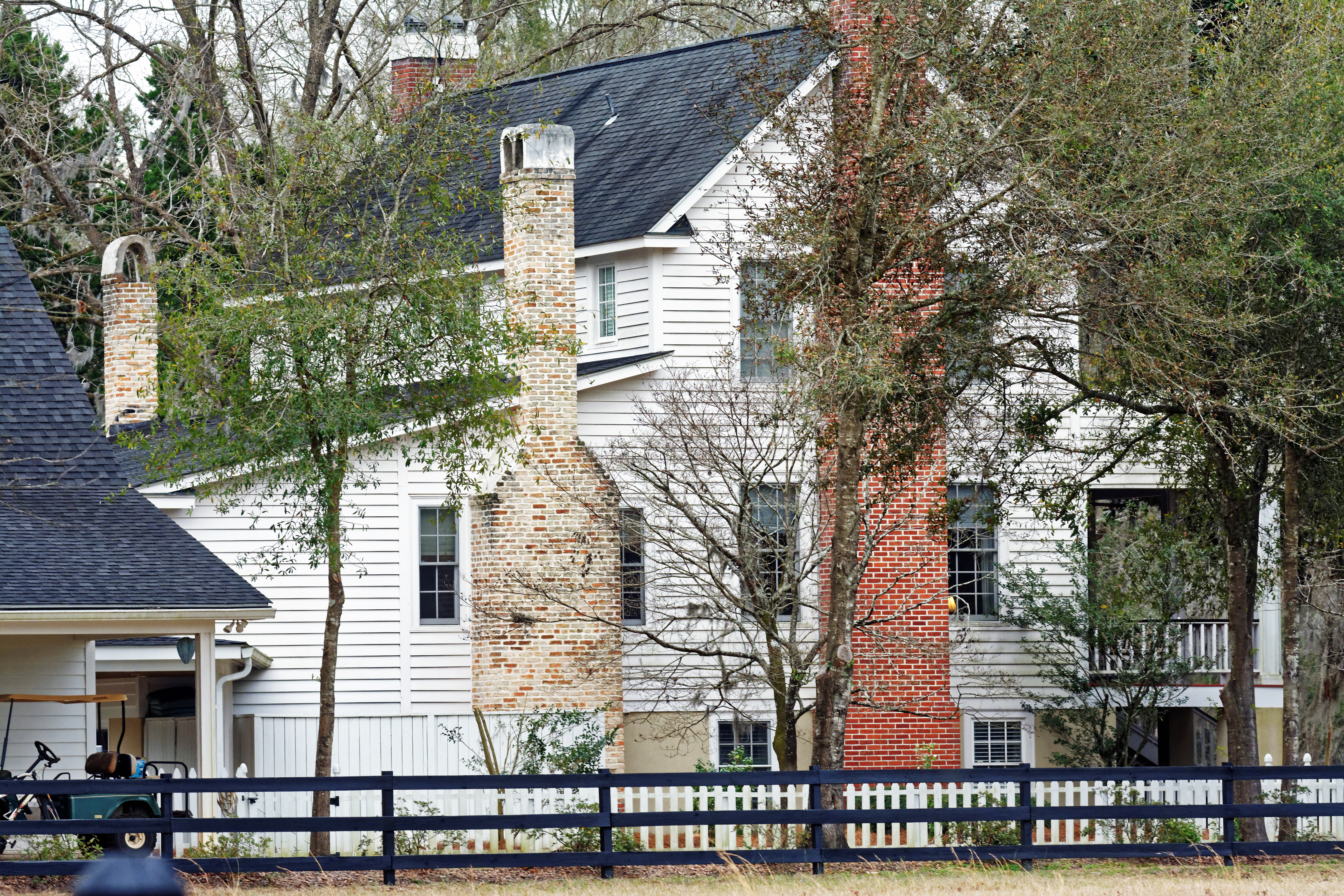 Oak Grove (also called the Richardson Place), Hampton County, South Carolina, U.S.